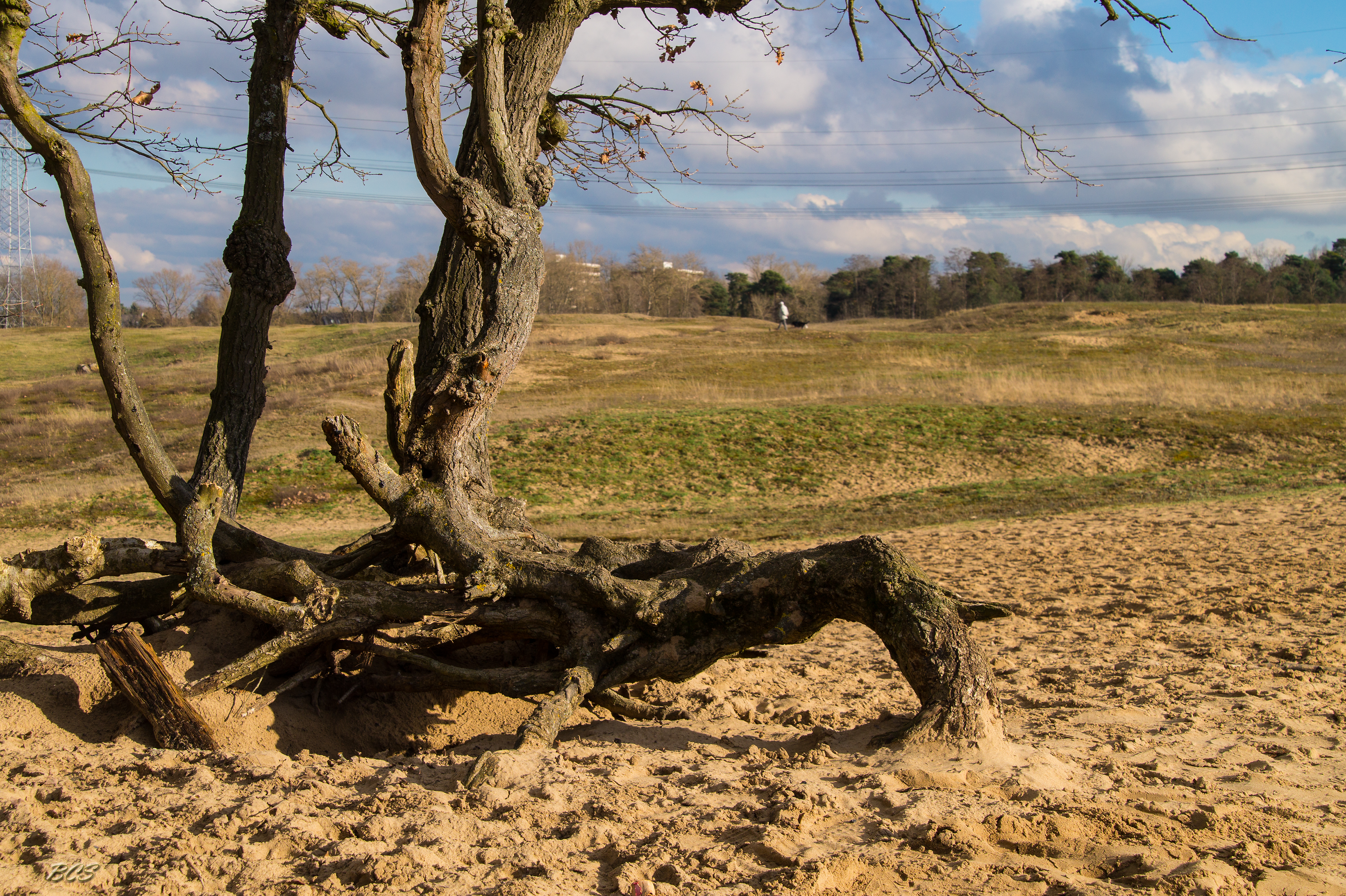 NSG Großer Sand